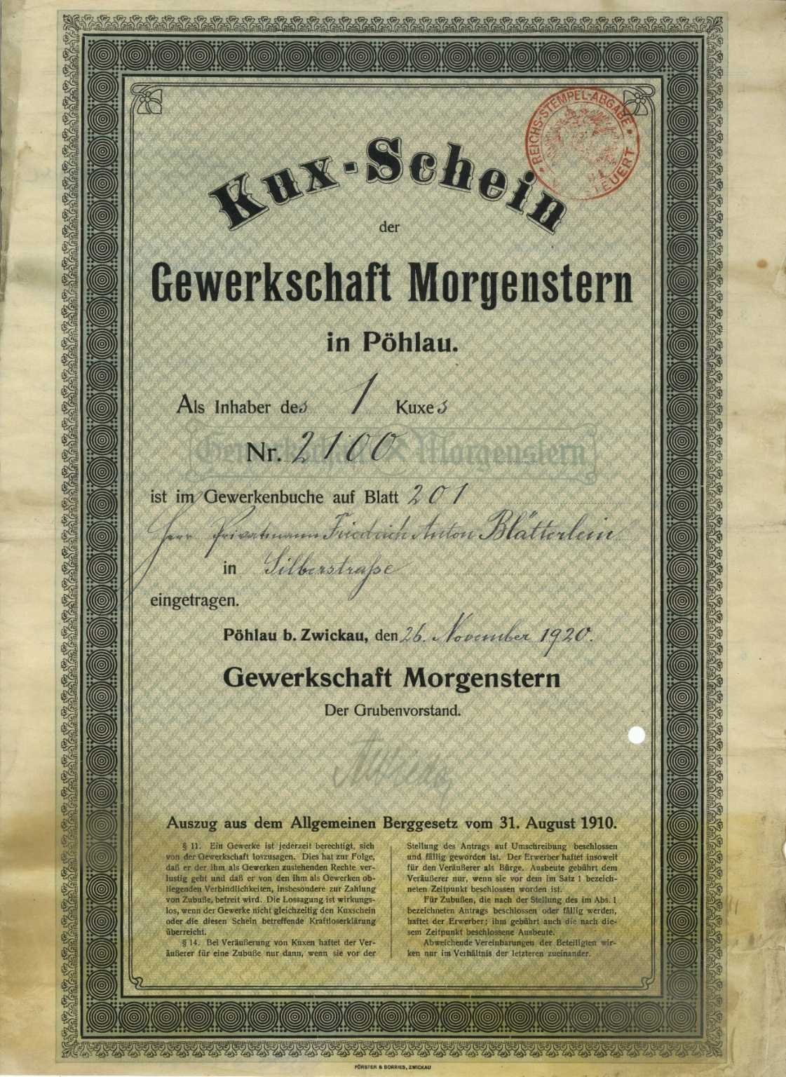 Obverse of a registered share certificate of Gewerkschaft Morgenstern coal mining company, Zwickau, Saxony, Germany; 1920